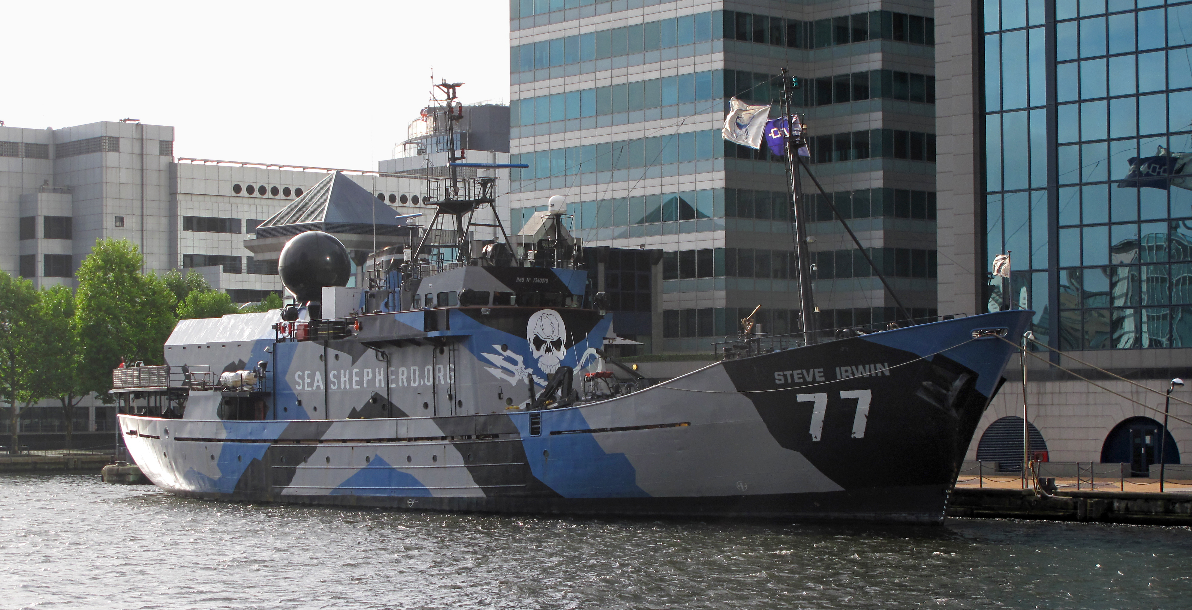 MY Steve Irwin, Sea Shepherd Conservation Society, docked in the West India Dock London.